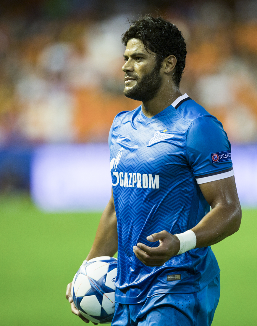 16.09.2015. Hulk